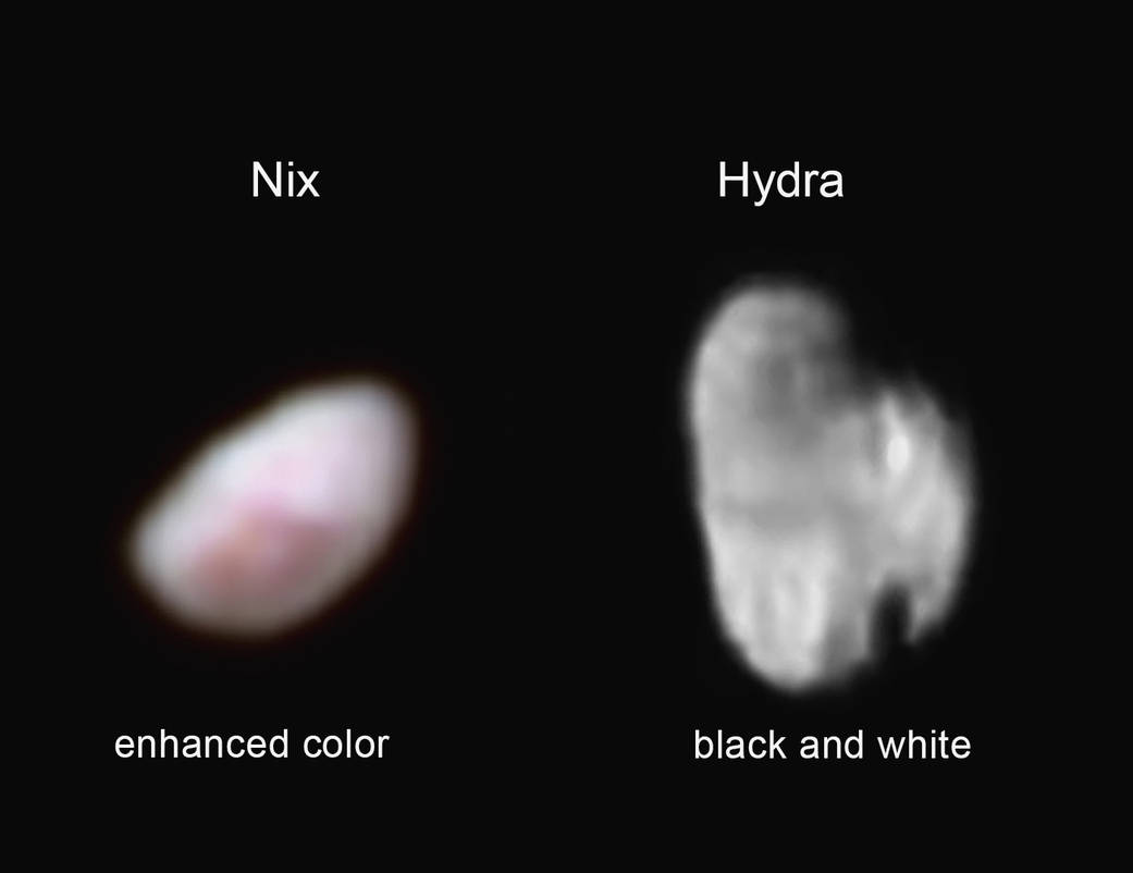 Pluto’s moon Nix (left), shown here in enhanced color as imaged by the New Horizons Ralph instrument, has a reddish spot that has attracted the interest of mission scientists. The data were obtained on the morning of July 14, 2015 and received on the ground on July 18. At the time the observations were taken New Horizons was about 102,000 miles (165,000 km) from Nix. The image shows features as small as approximately 2 miles (3 kilometers) across on Nix, which is estimated to be 26 miles (42 kilometers) long and 22 miles (36 kilometers) wide. Pluto’s small, irregularly shaped moon Hydra (right) is revealed in this black and white image taken from New Horizons’ LORRI instrument on July 14, 2015 from a distance of about 143,000 miles (231,000 kilometers). Features as small as 0.7 miles (1.2 kilometers) are visible on Hydra, which measures 34 miles (55 kilometers) in length. (Caption by NASA)